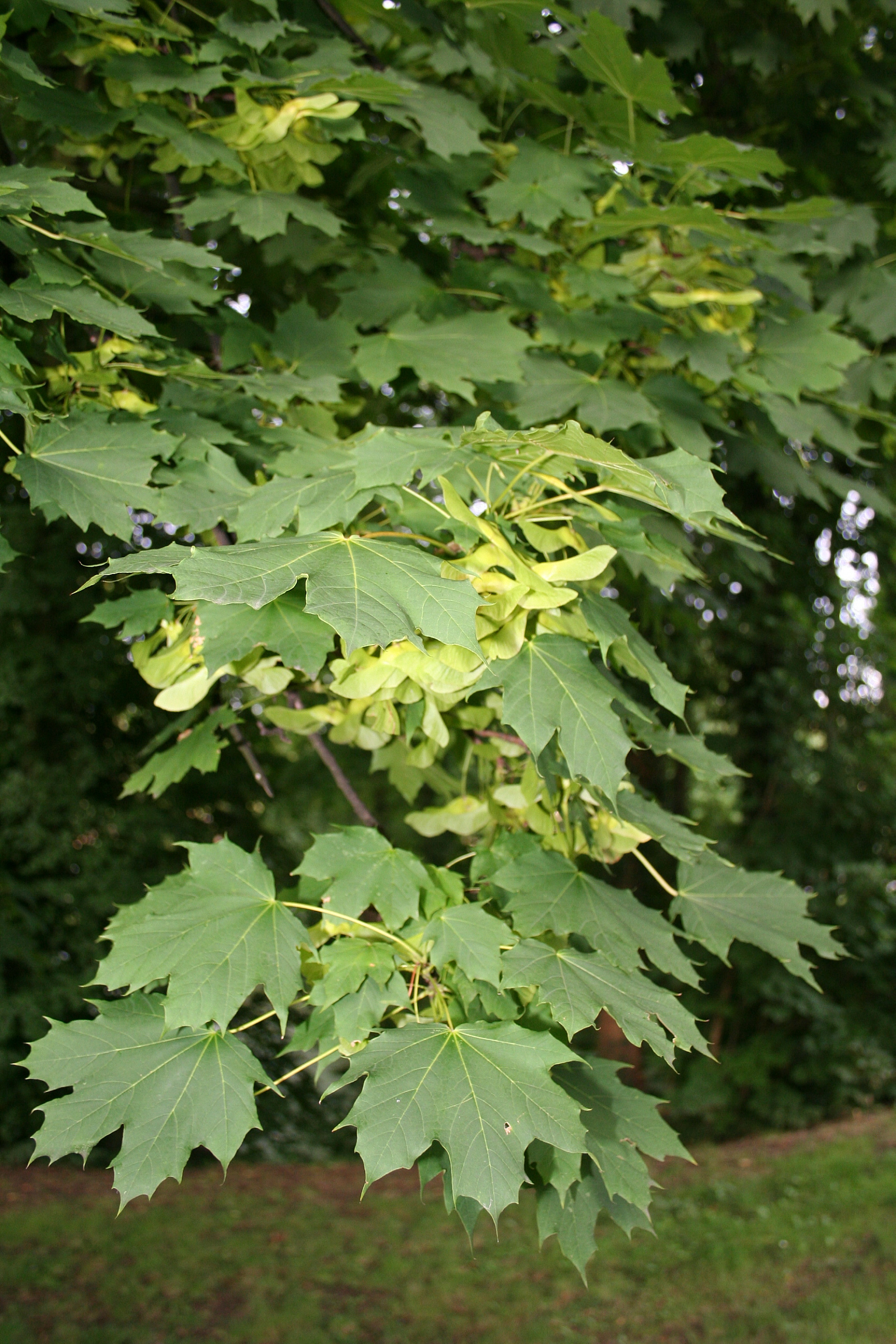 Norway Maple leaves.